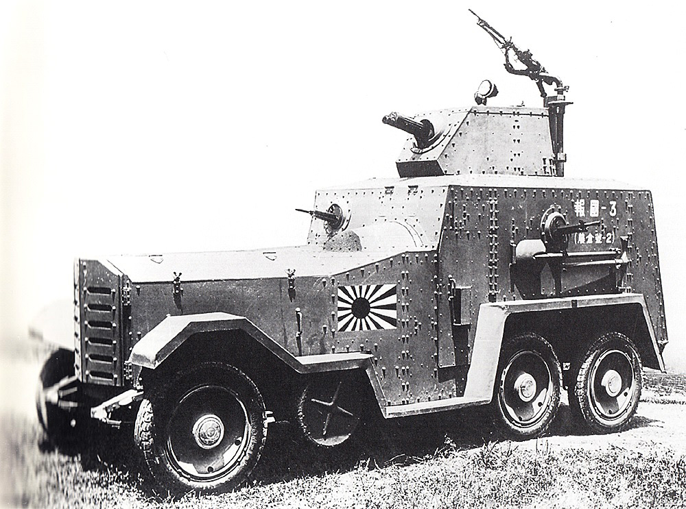 A Type 93 Armoured Car of the Special Naval Landing Forces (SNLF) of the Imperial Japanese Navy